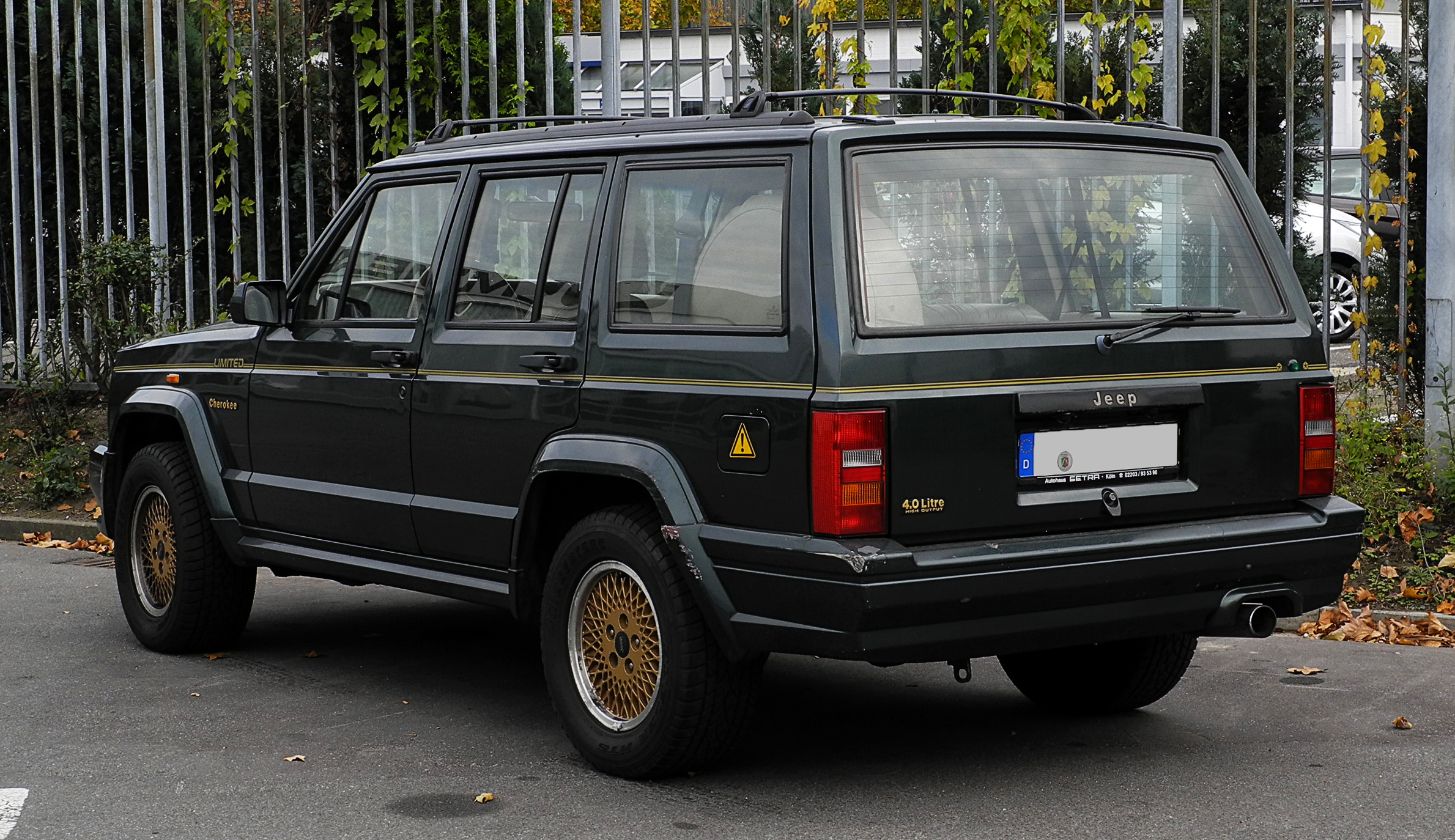 Jeep Cherokee 4.0 Litre Limited (XJ, Facelift)